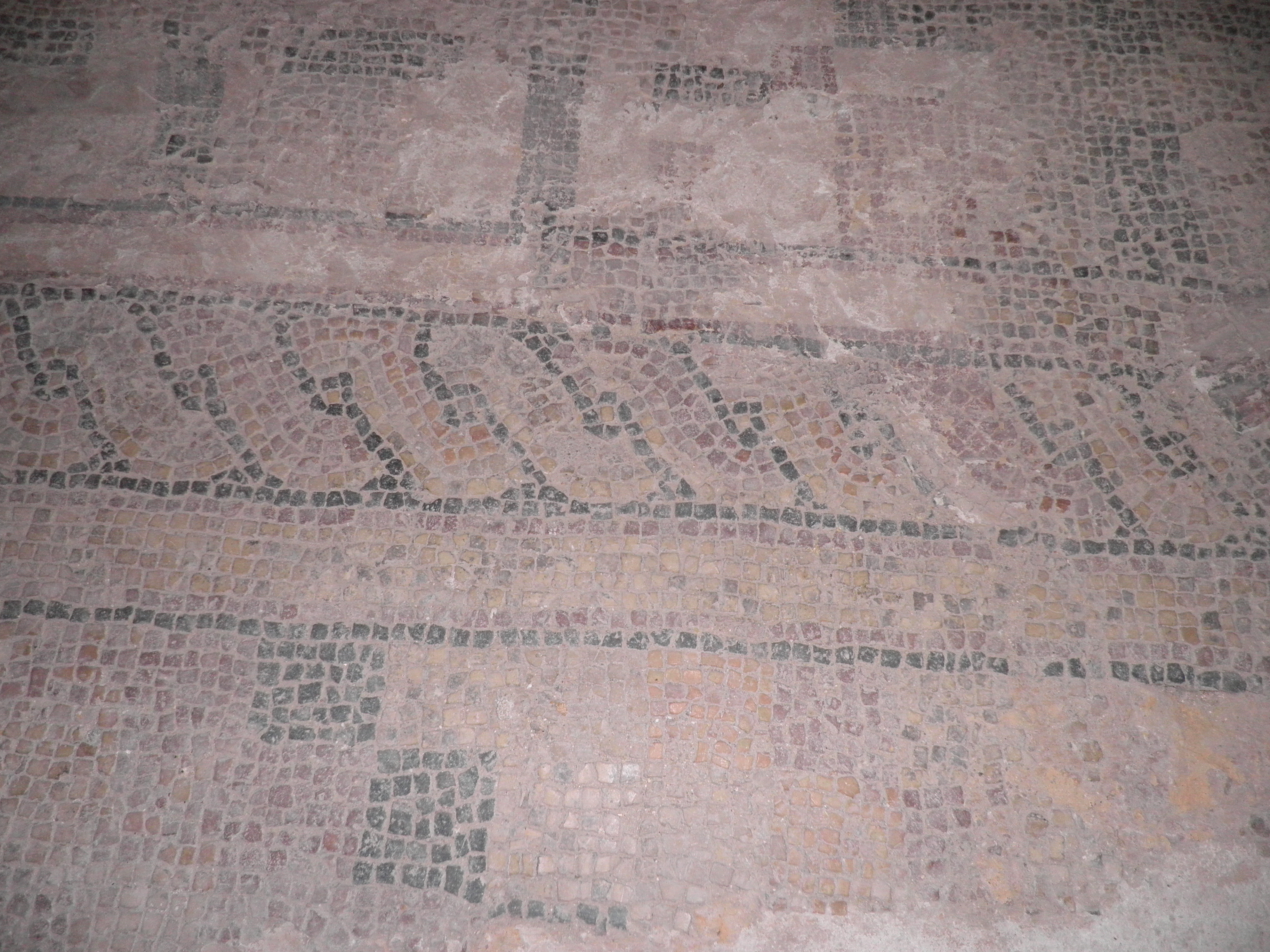 Roman mosaic shown inside of Nuestra Señora de la Asunción church in Paradinas, Santa María la Real de Nieva, province of Segovia, Spain.